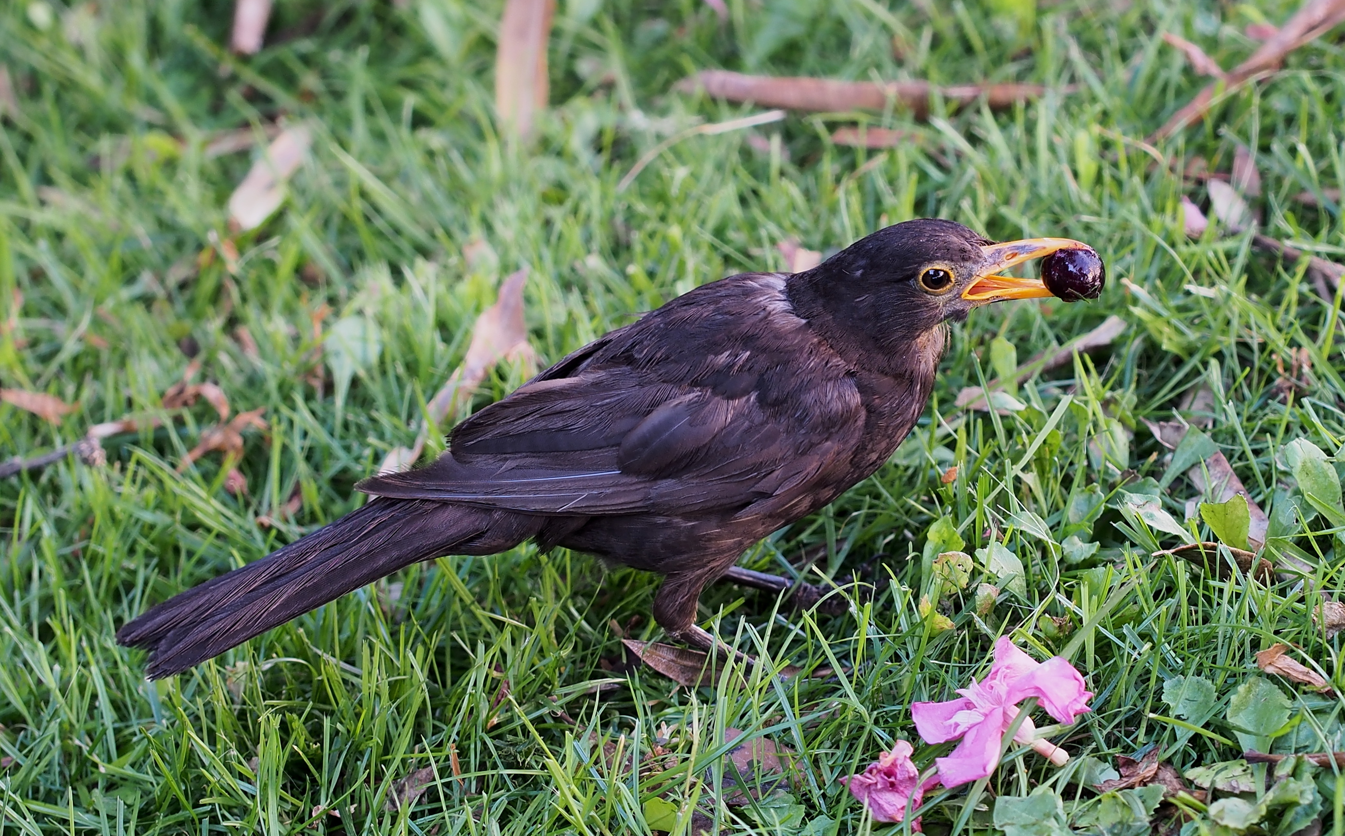 Common Blackbird (Turdus merula male) before swallowing his food.